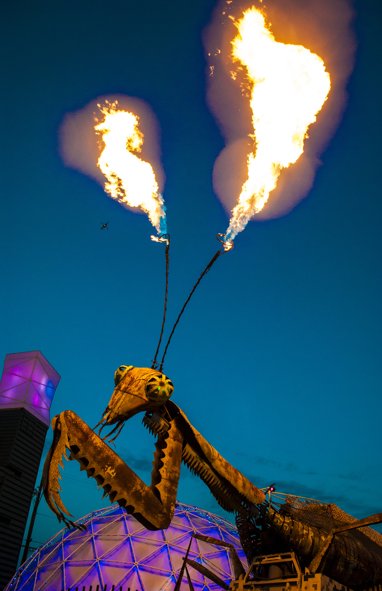 500px provided description: Praying Mantis that breathes fire in downtown las vegas. [#fire ,#street ,#photography ,#breathe ,#prayingmantis]